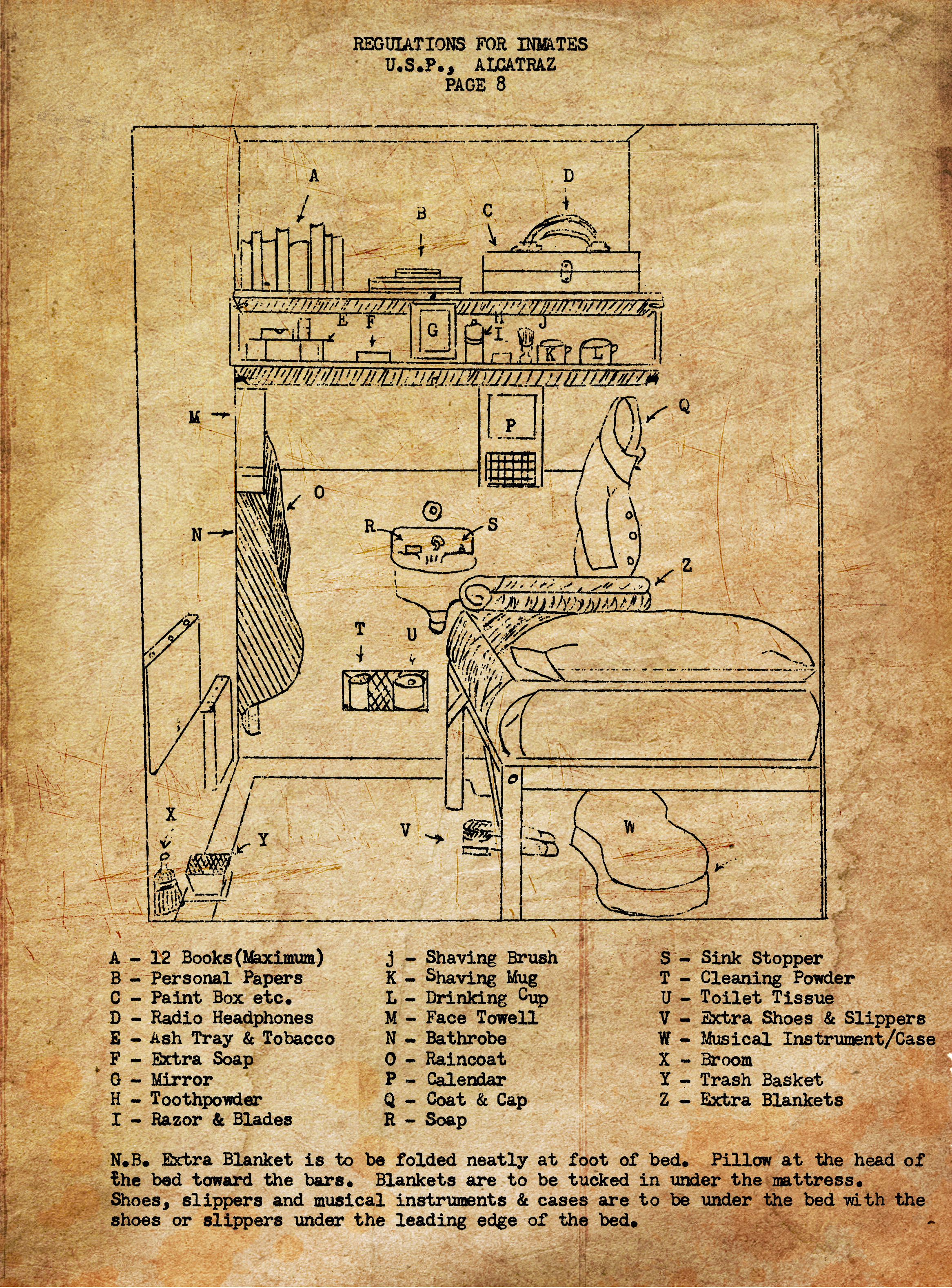 A page of the "Institution Rules and Regulations of the United States Penitentiary, Alcatraz Island," compiled by Paul J. Madigan. This is a page demonstrating how a typical cell should look.